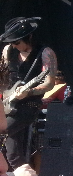 Dead Daisies performing at Uproar Festival 2013